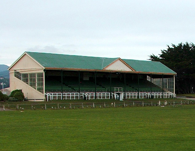 The grandstand at Tahuna Park, Dunedin, New Zealand. Photographed on 14 June 2009.